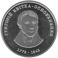 Coin of Ukraine